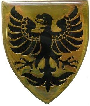 SADF era Frankfort Commando emblem